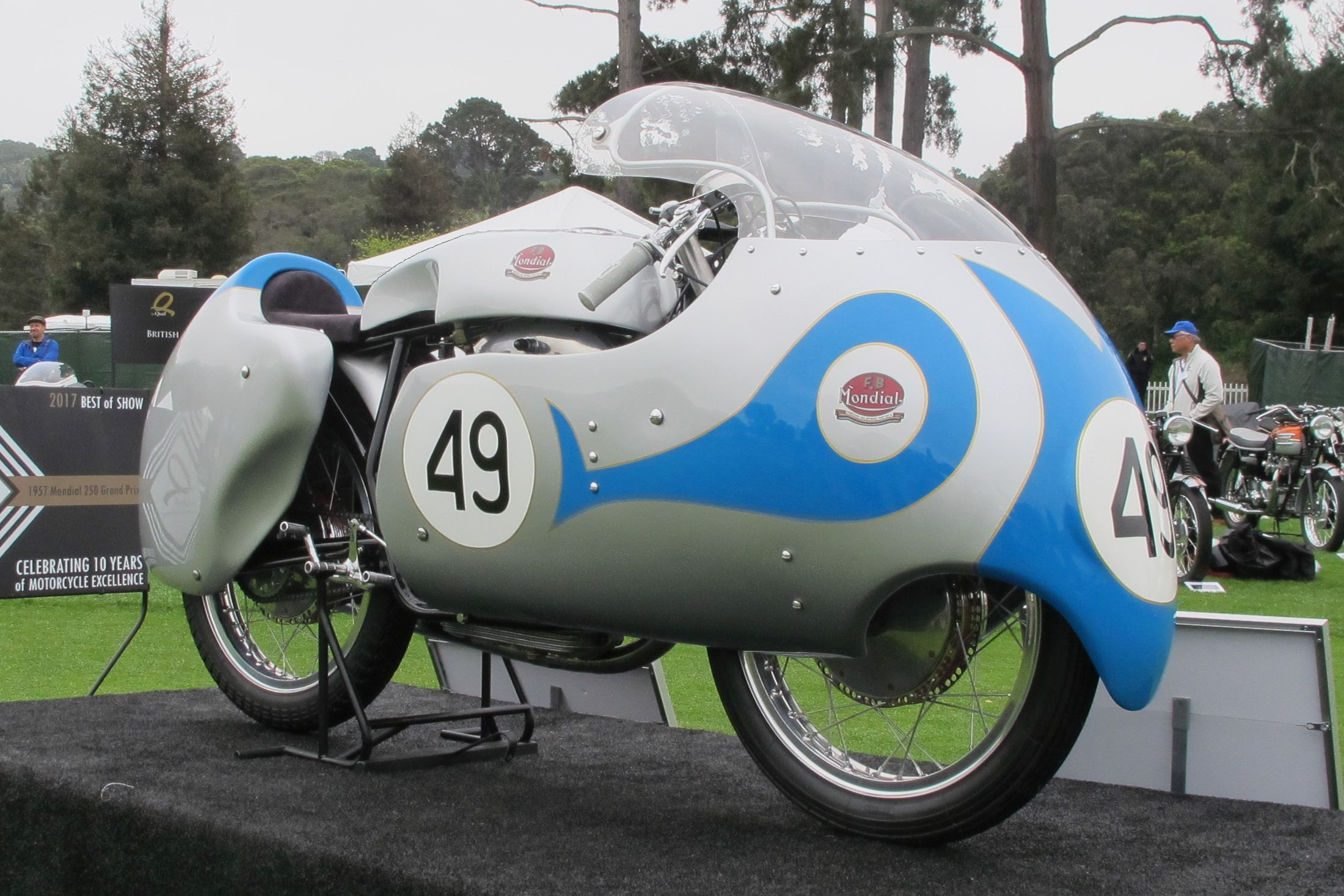 A 1957 Mondial 250 Grand Prix DOHC racing motorcycle which won best of show at the Quail Motorcycle Gathering in 2017